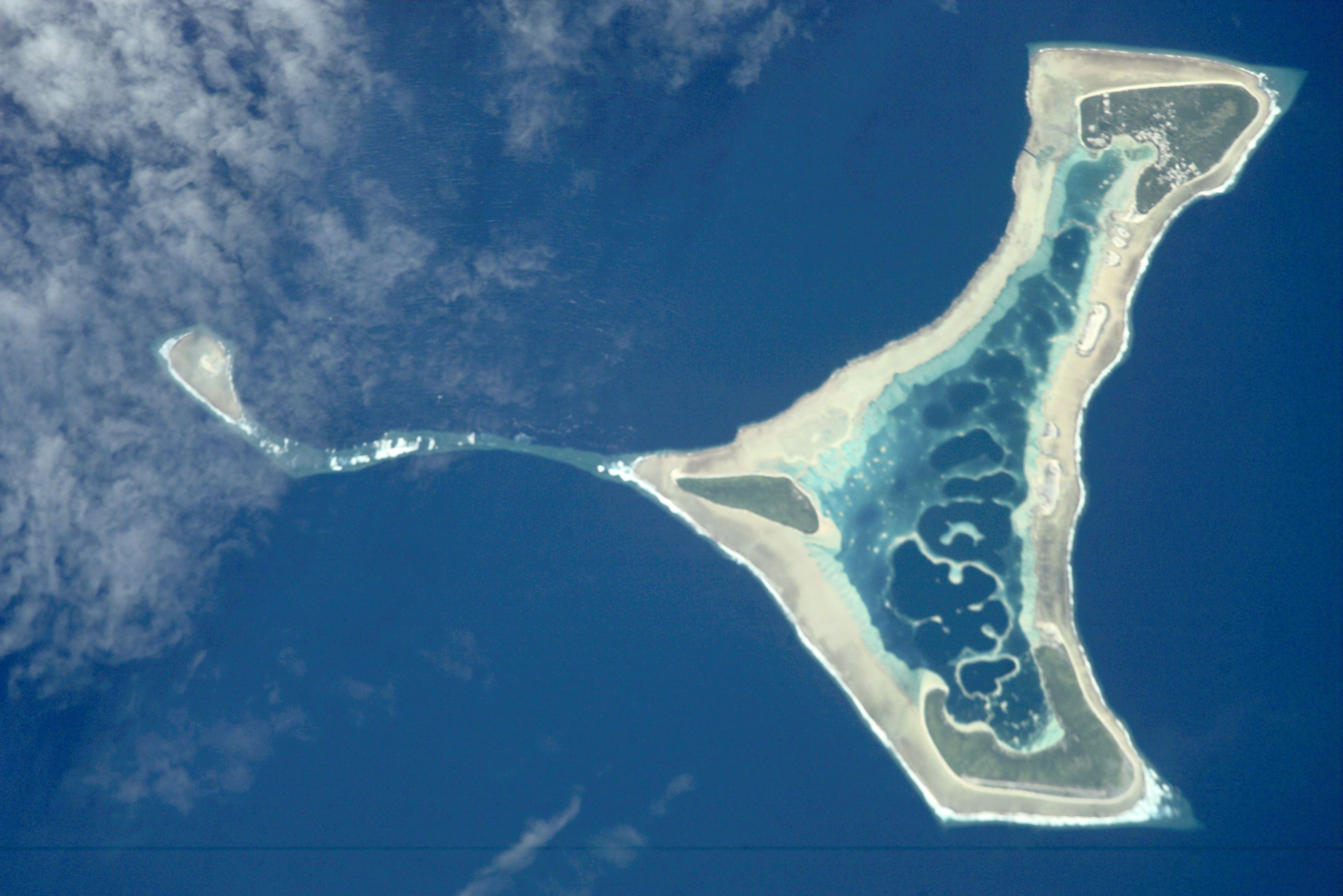 NASA astronaut image of Pukapuka Atoll (Cook Islands) in the Pacific Ocean